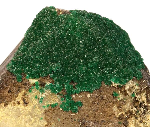 Philipsburgite, Quartz Locality: Black Pine Mine (Combination Mine; Black Pine Tailings; Black Pine Dump), Flint Creek Valley, John Long Mts, Philipsburg District (Flint Creek District), Granite County, Montana, USA (Locality at ) Size: 2.3 x 1.8 x 1.6 cm. Bright, translucent, emerald-green botryoids richly coat the quartz matrix of this unique and exceptionally fine thumbnail specimen of the rare phosphate philipsburgite from the Type Locality - the Black Pine Mine, Philipsburg Area, Montana. The bulk of the philipsburgite actualy lies on the base of a very sharp, iron oxide-coated quartz crystal. Very uncommon in this quality. Ex. John White Collection. This is certainly the style found from the type pocket, as well, I am told.